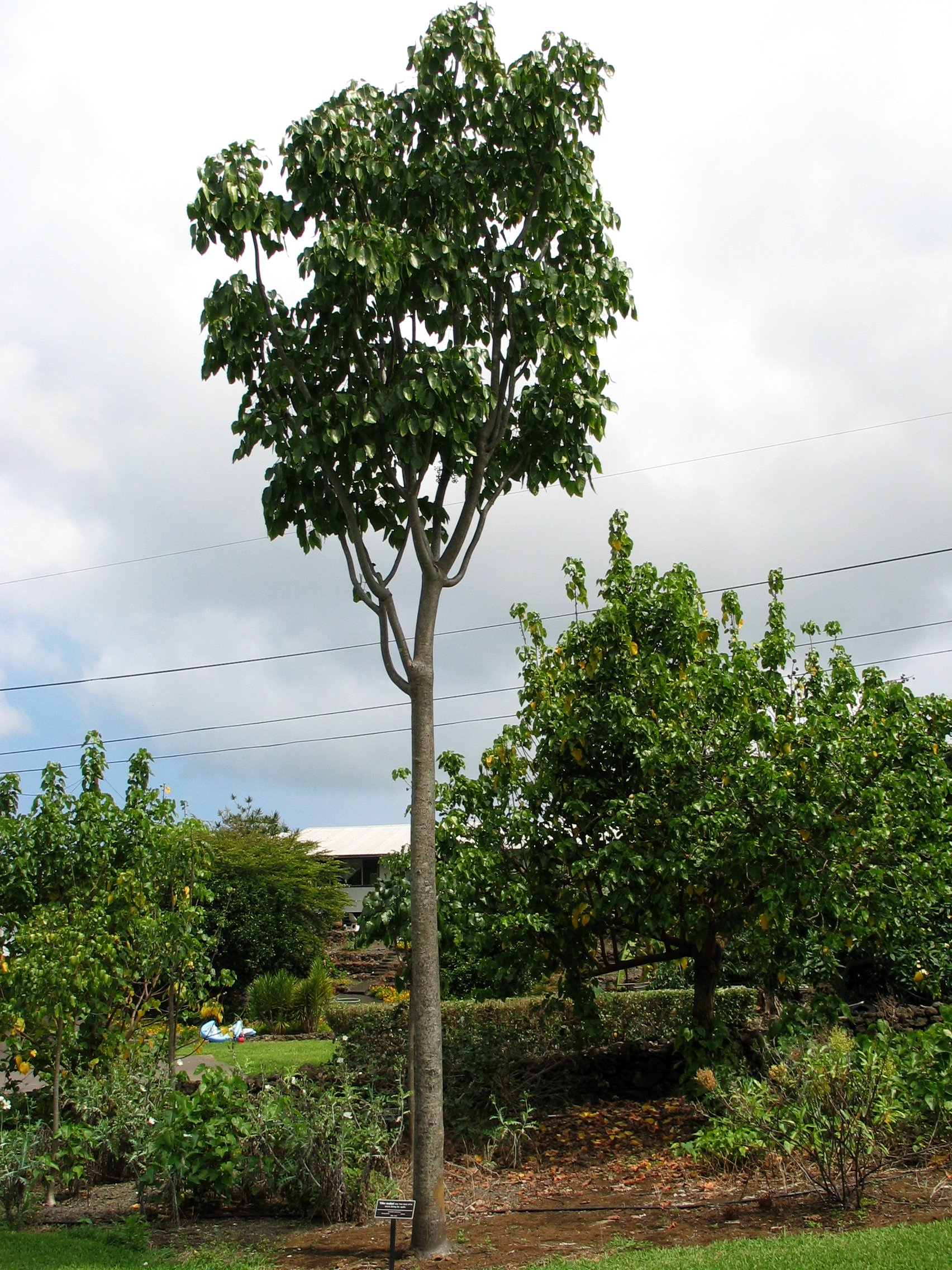 [syn. Reynoldsia sandwicensis] ʻOhe makai or Hawaiian reynoldsia Araliaceae Endemic Hawaiʻi (Cutlivated) NPH00006